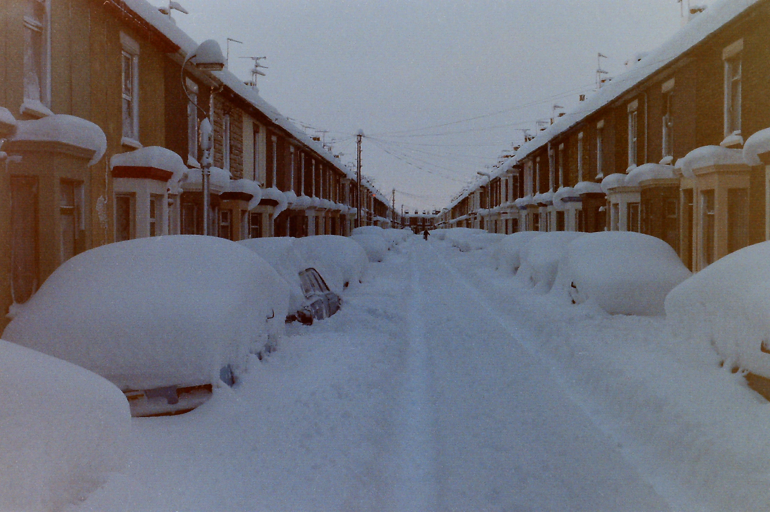 Heavy snow fell overnight on the 11th January 1987. The Isle of Sheppey was cut off from the mainland. Here's our street first thing in the morning.